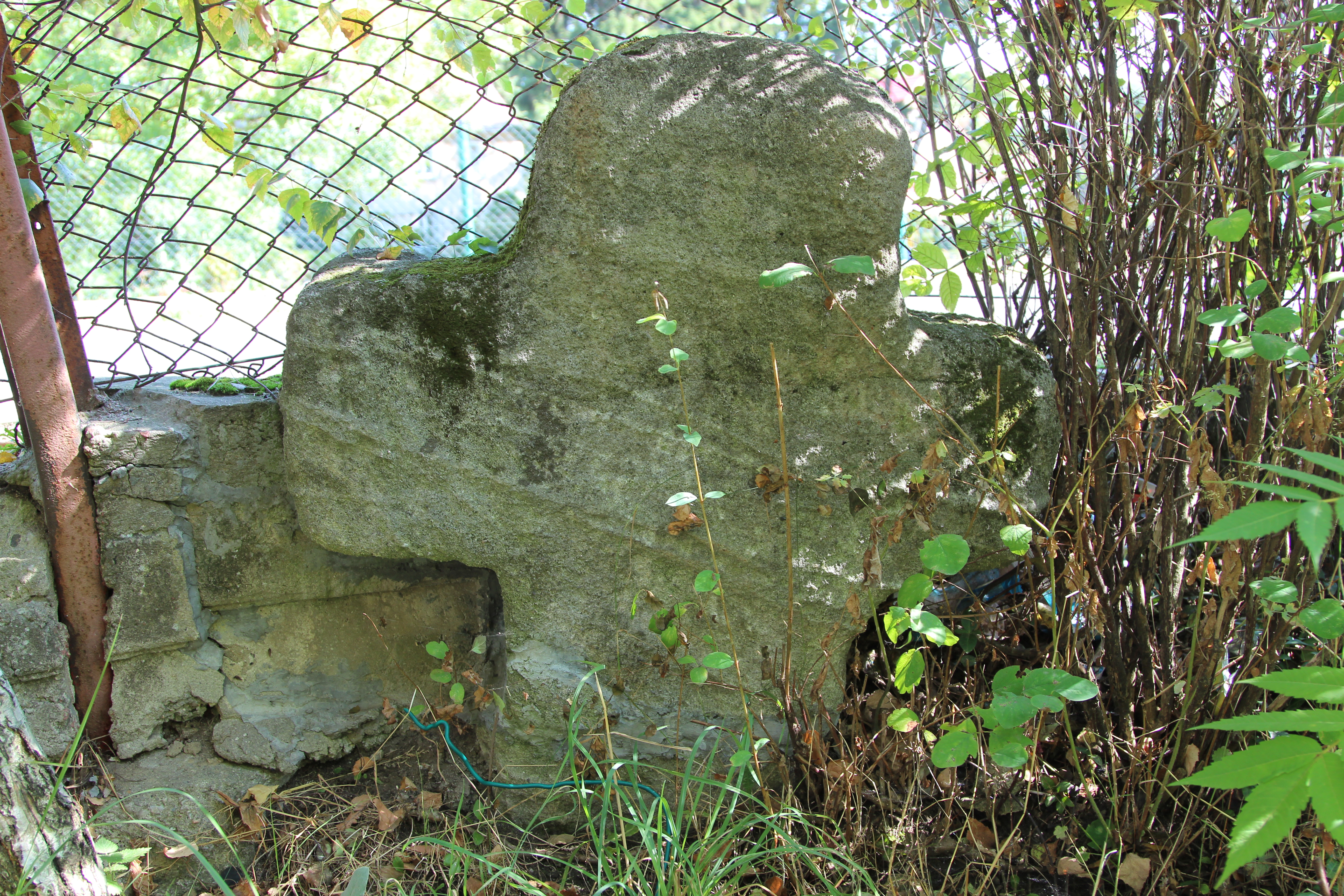 Stone cross in Raciborowice Górne